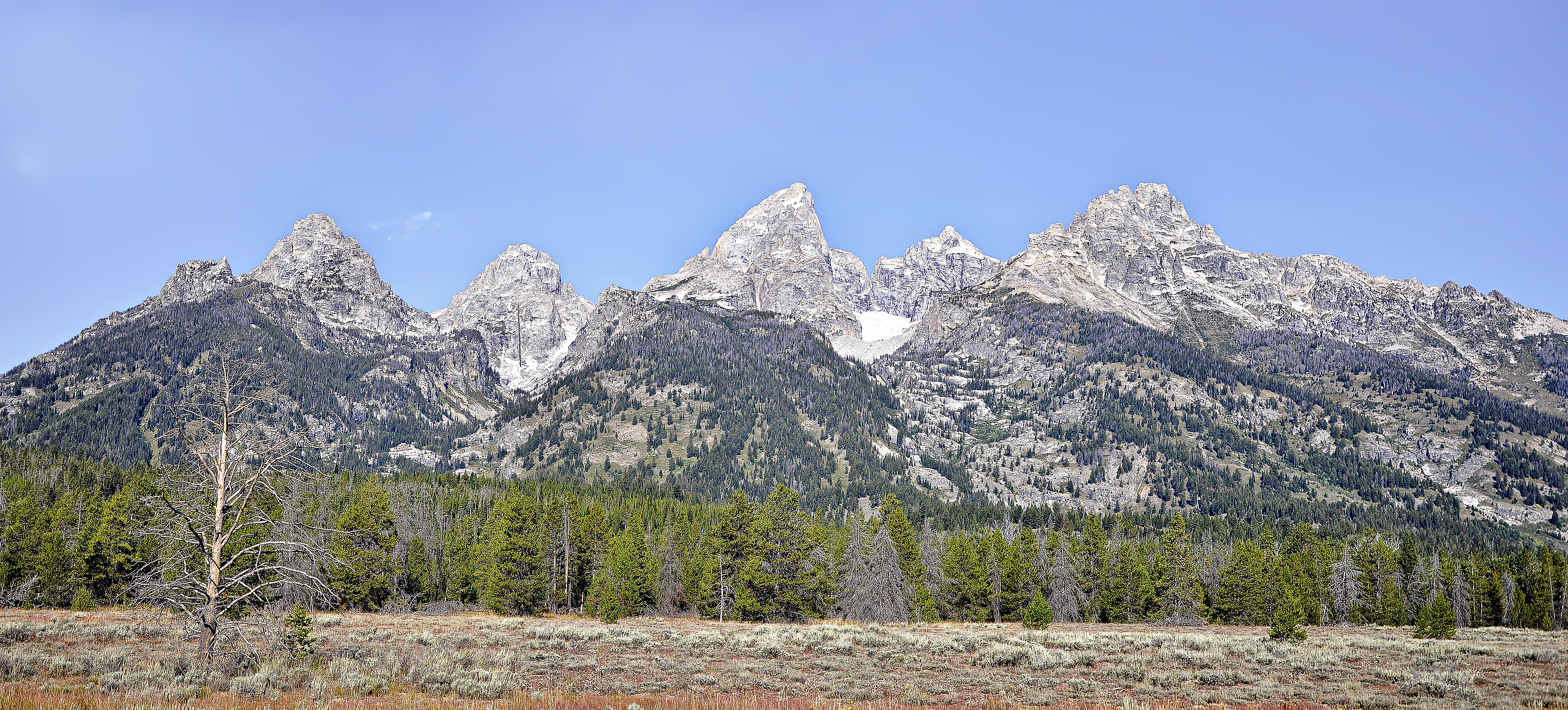 Grand Teton National Park - Wyoming, USA Nez Perce Peak Middle Teton Grand Teton Mount Owen Teewinot Mountain from left to right